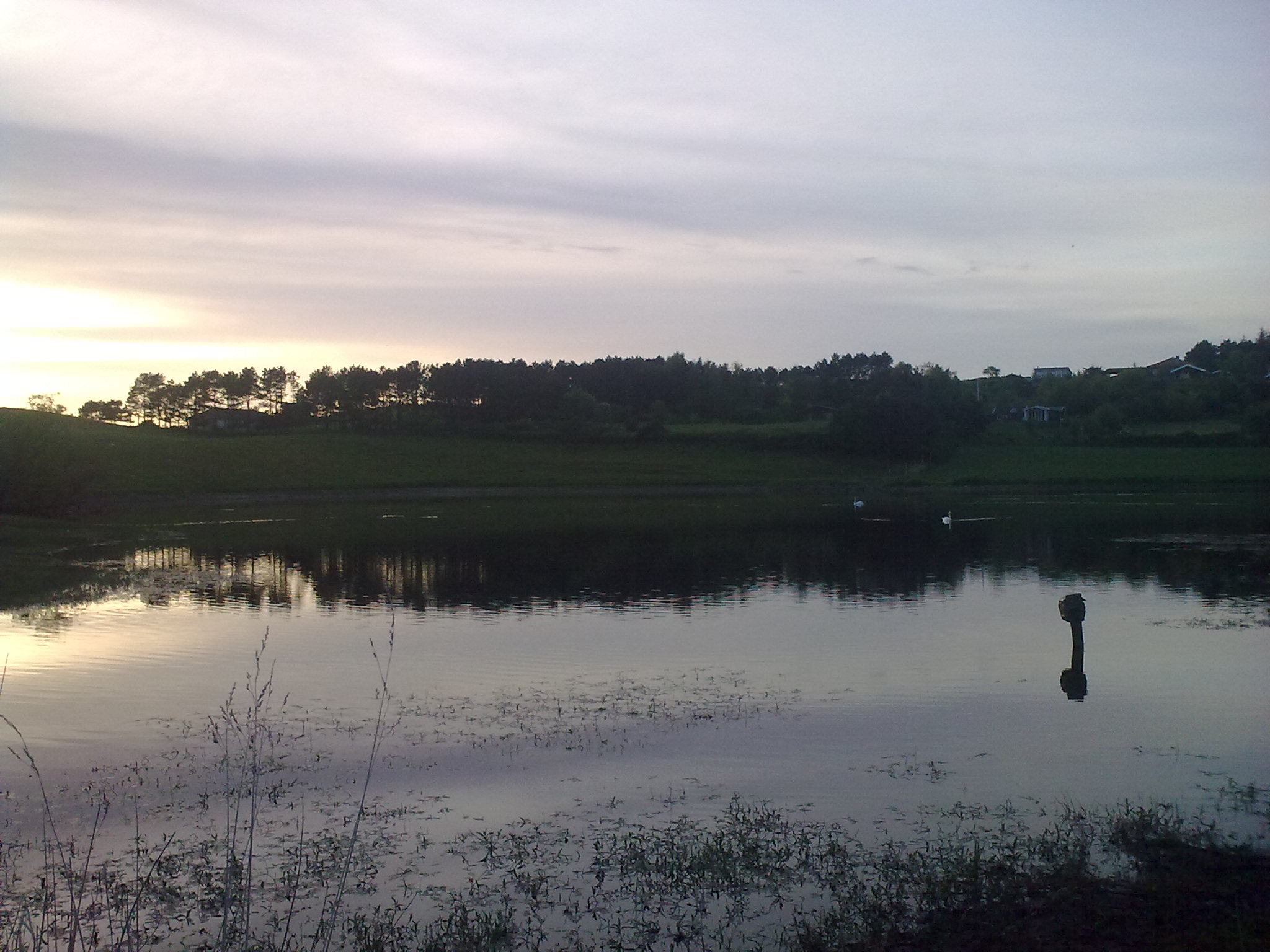 The so-called "swan lake" on Helgenæs, a kilometer west-southwest of Stødov Kirke.